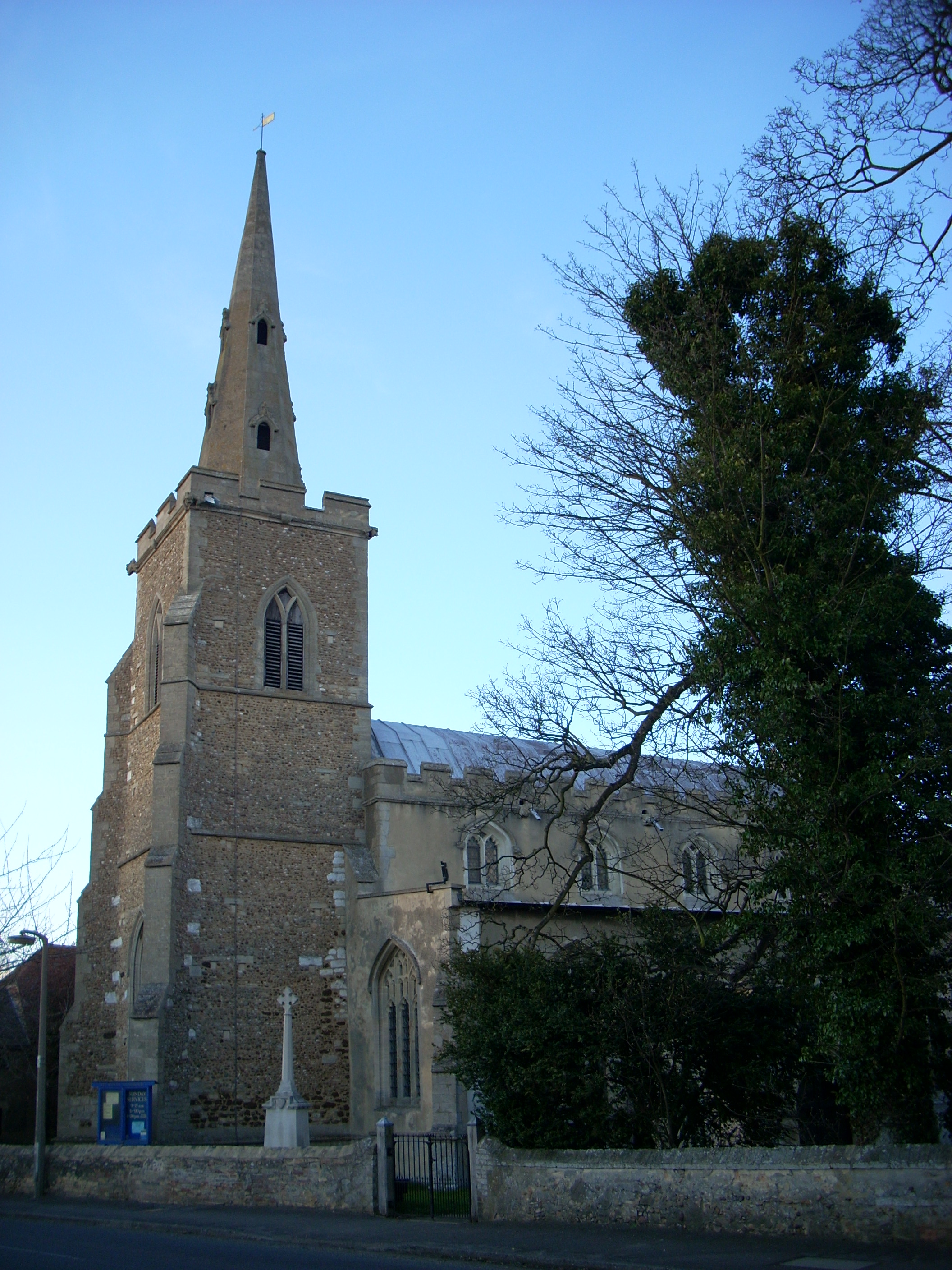 Church of All Saints, Landbeach, Cambridgeshire